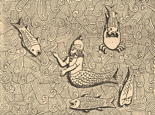 Illustration from Brockhaus and Efron Jewish Encyclopedia (1906—1913)